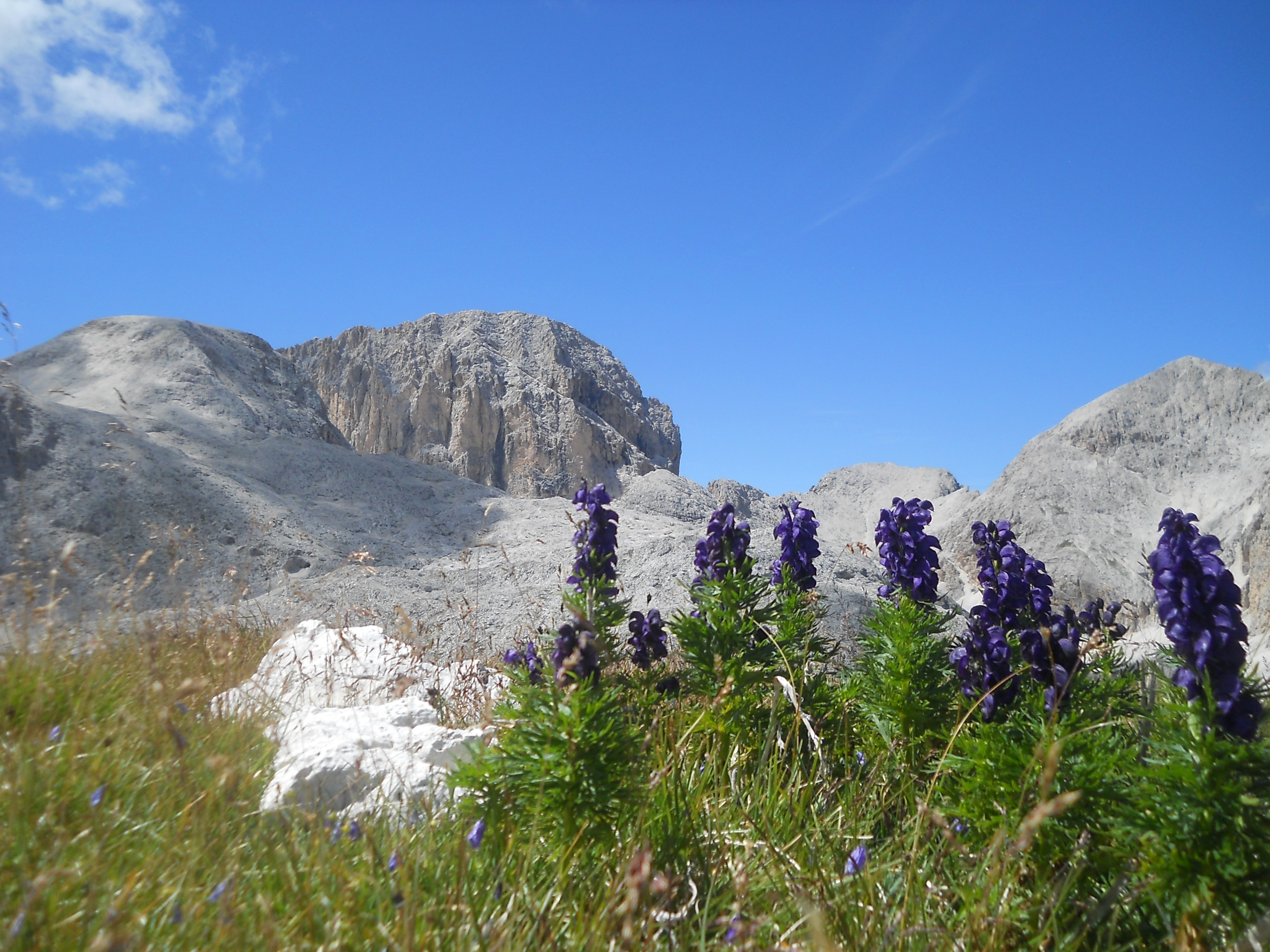 Rosengarten group view from Antermoia's refuge